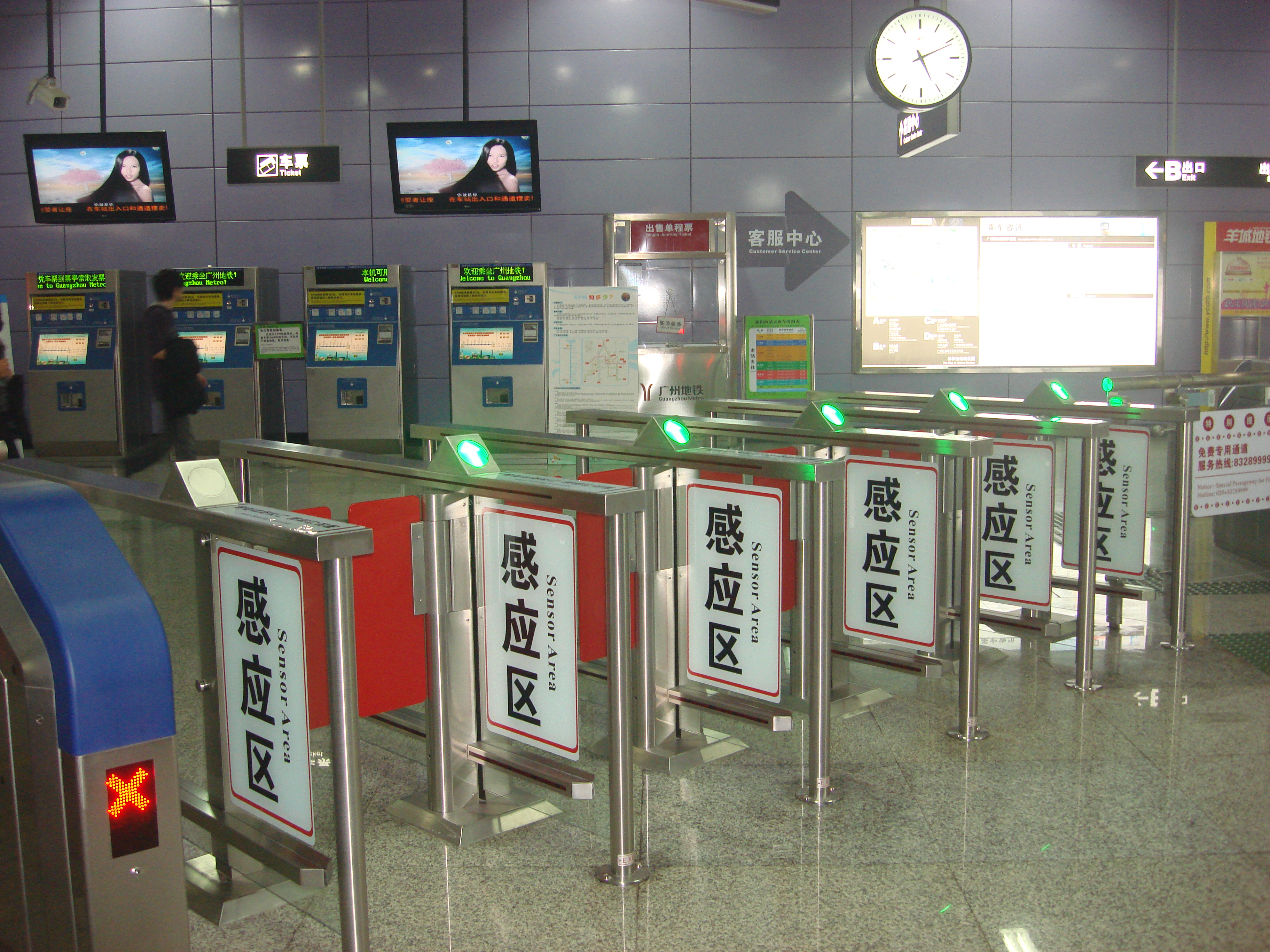 Exit gate of the APM Line of Guangzhou Metro.